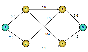 luong cuc dai